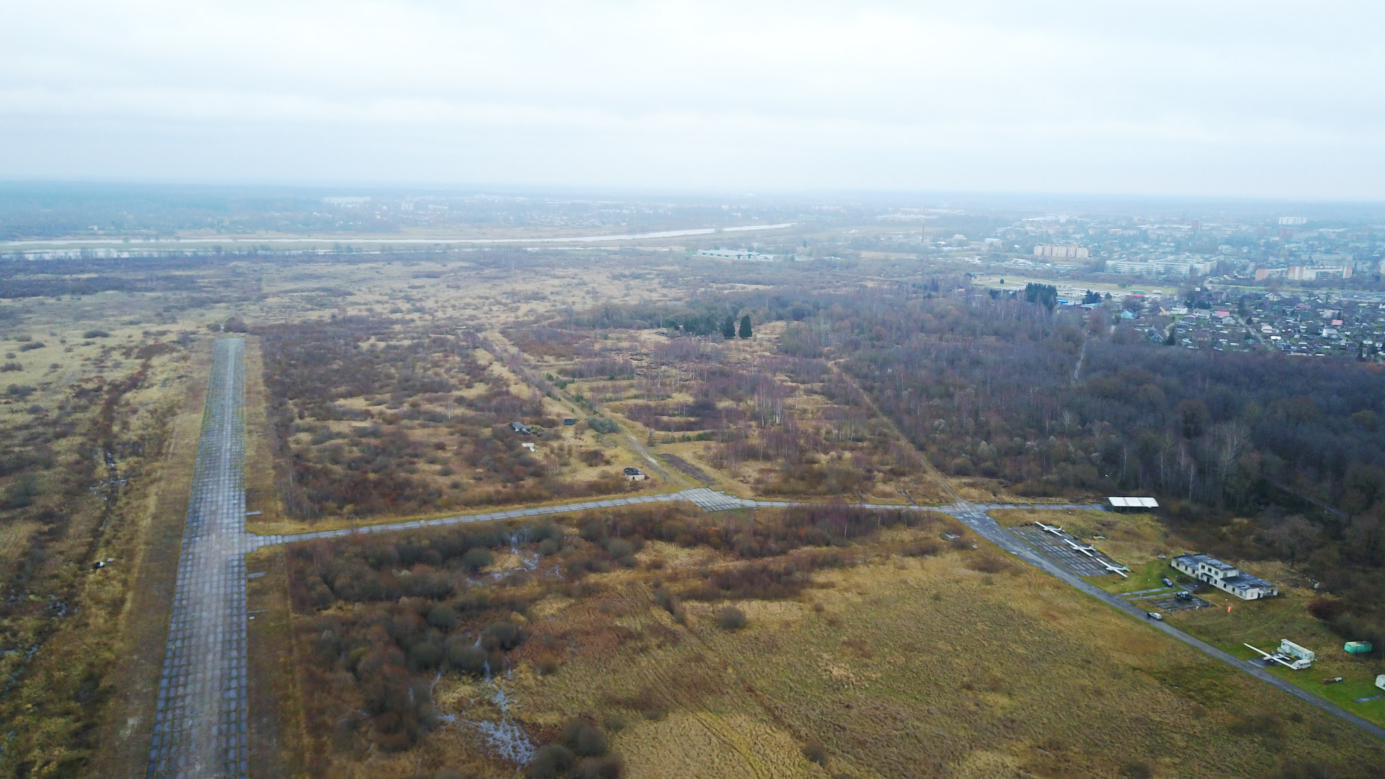 Jelgava airfield (EVEA) in November 2017, view from above.